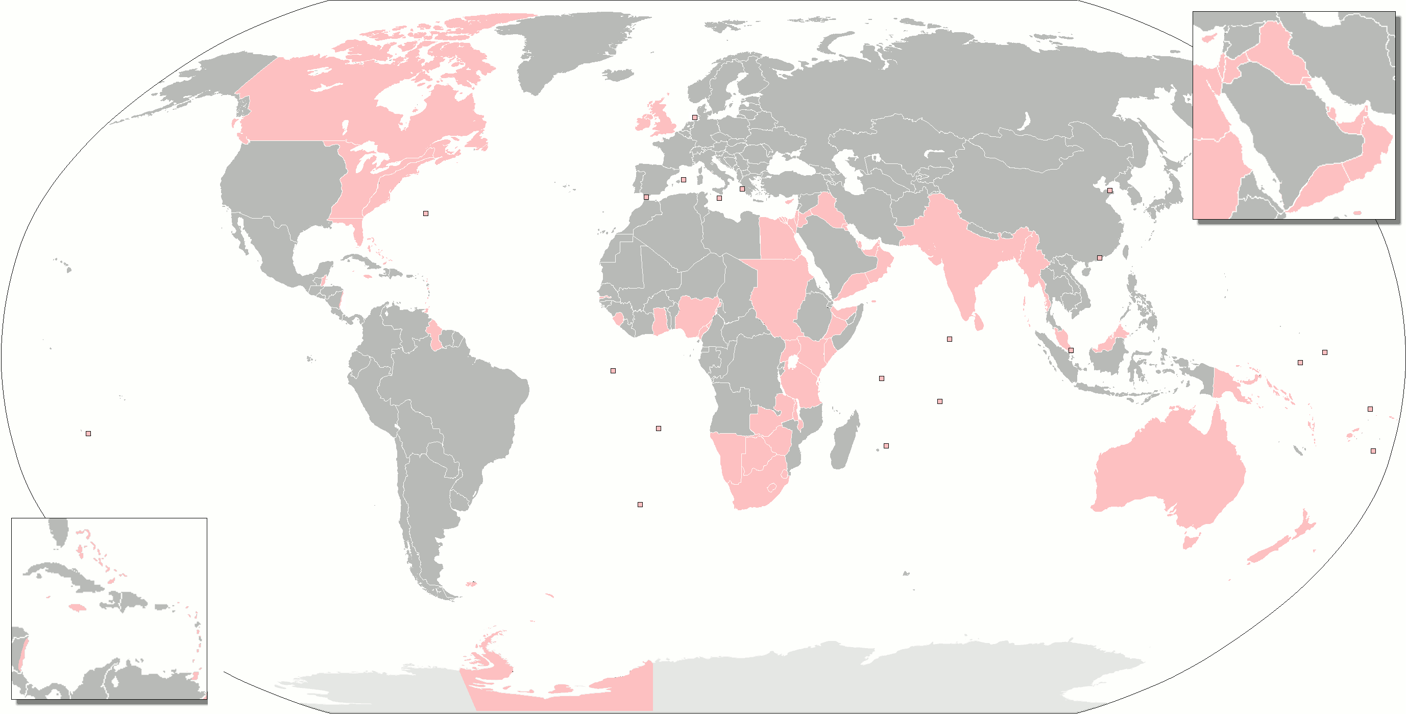 The territories that were at one time or another part of the British Empire.